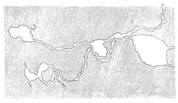 Map of Csörgő Hole (Hungary).